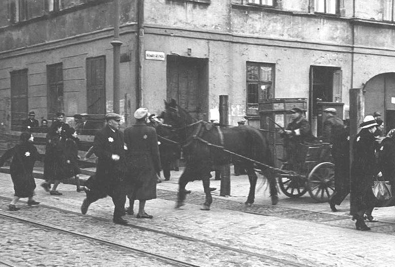 Ghetto Litzmannstadt. Old Market gate in previously Litzmannstadt (Lodz city). East - West ghetto parts traffic across "aryan race" Hohensteiner Straße (Zgierska street).